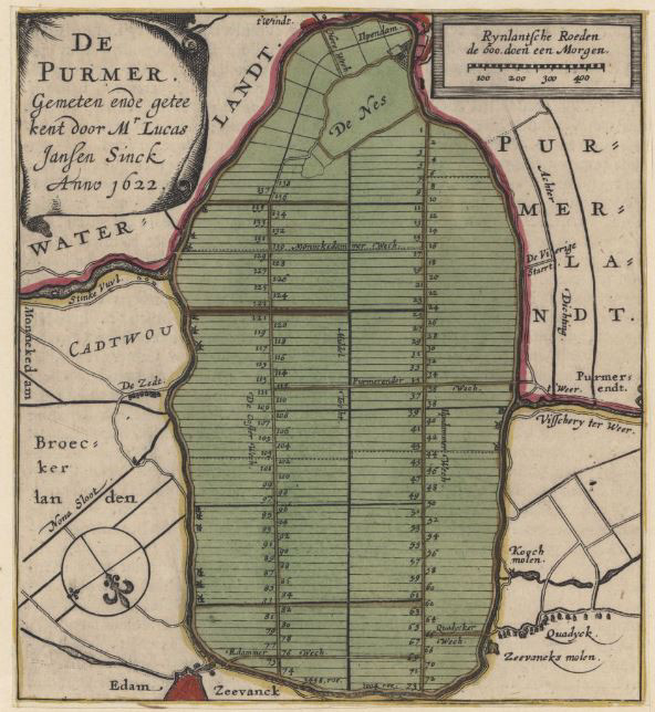 A 17th century map of the Purmer polder in Holland, by cartographer Lucas Jansz Sinck